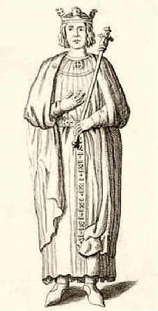 Young Henry, son of Henry II, a drawing of the recumbent statue destroyed in 1733 in Rouen cathedral - Illustration from the "Livre du Millénaire de la Normandie" (Book of the Millennium of Normandy), 1911, after Gaignères (c. 1700)